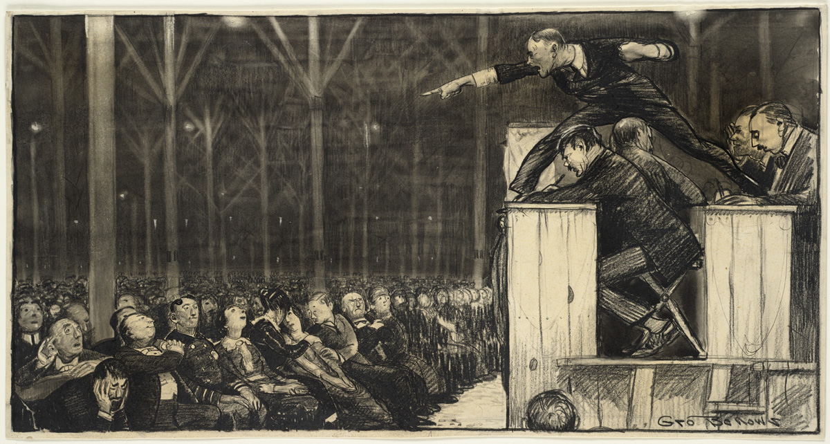 Accession No.: 1943.1.6 Title: Preaching Alternative title: Billy Sunday Creator: Bellows, George, 1882-1925 Date: 1915 Genre: Drawings Medium/Form: drawing : crayon, ink, and wash on paper Dimensions: 15 x 28 in. Notes: Signed "Geo Bellows"; Published in Metropolitan magazine in May 1915 to illustrate "Back of Billy Sunday". Provenance: Sold by H.V. Allison Galleries to Albert H. Wiggin in June 1943 as "Billy Sunday." Gifted to the Boston Public Library. BPL department: Print Department